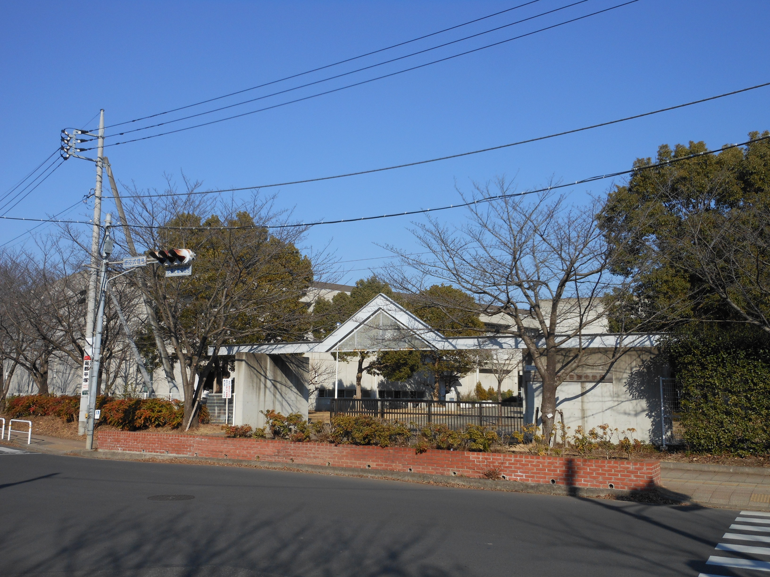 This is the Tsukuba city Azuma junior high school in Tsukuba, Ibaraki, Japan.